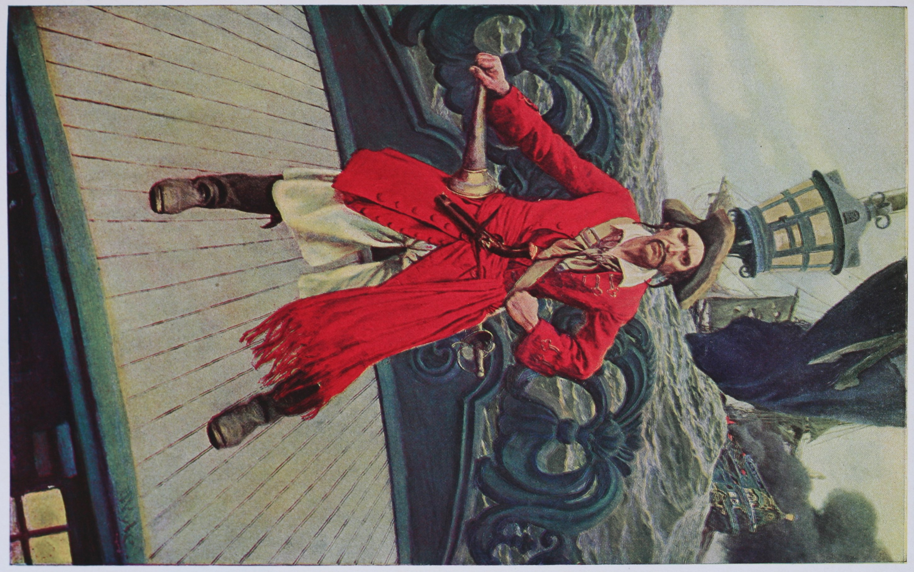 Captain Keitt: illustration of a pirate captain on deck.